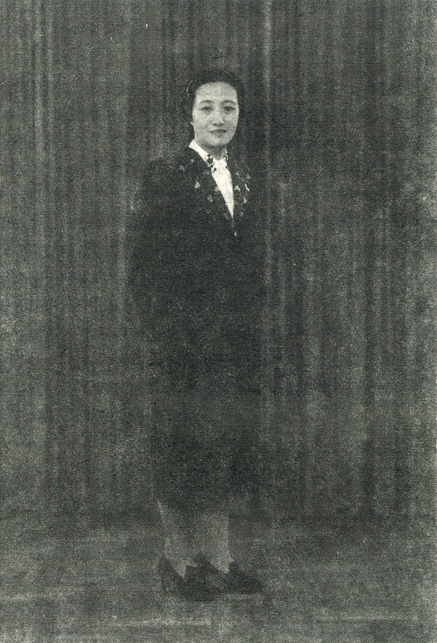 Dong Zhujun at a photographic studio in 1936, after the opening of King Kong Restaurant (integrated into Jin Jiang Hotel in 1951), Shanghai